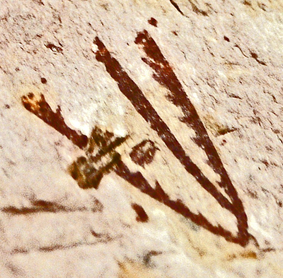 Crop of file in filename